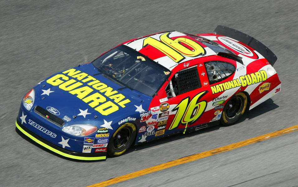 Vehicle of NASCAR driver Greg Biffle. Cropped and resized.